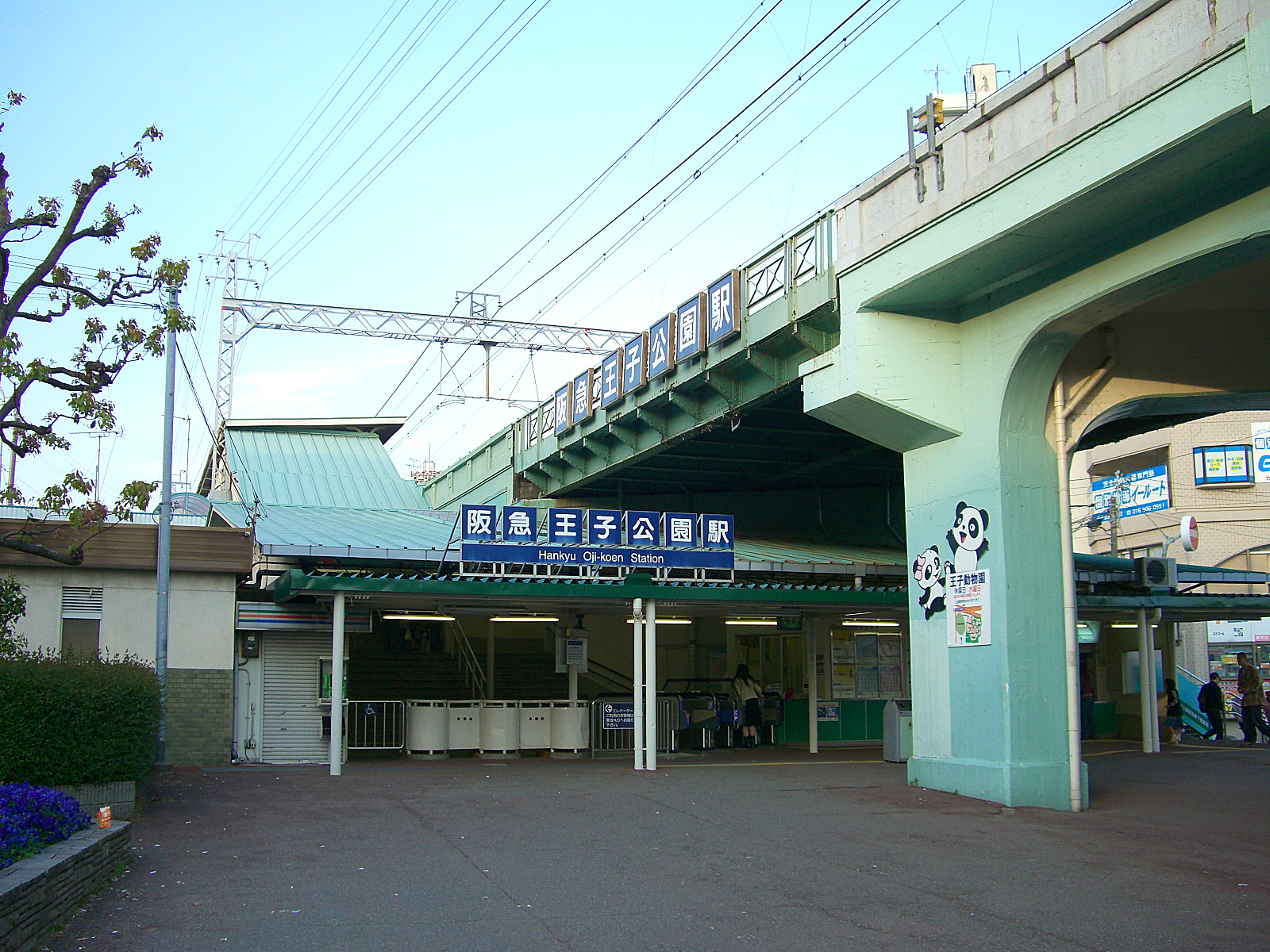 Hankyu Railway Kobe Main Line Oji-Koen Station Building West Gate